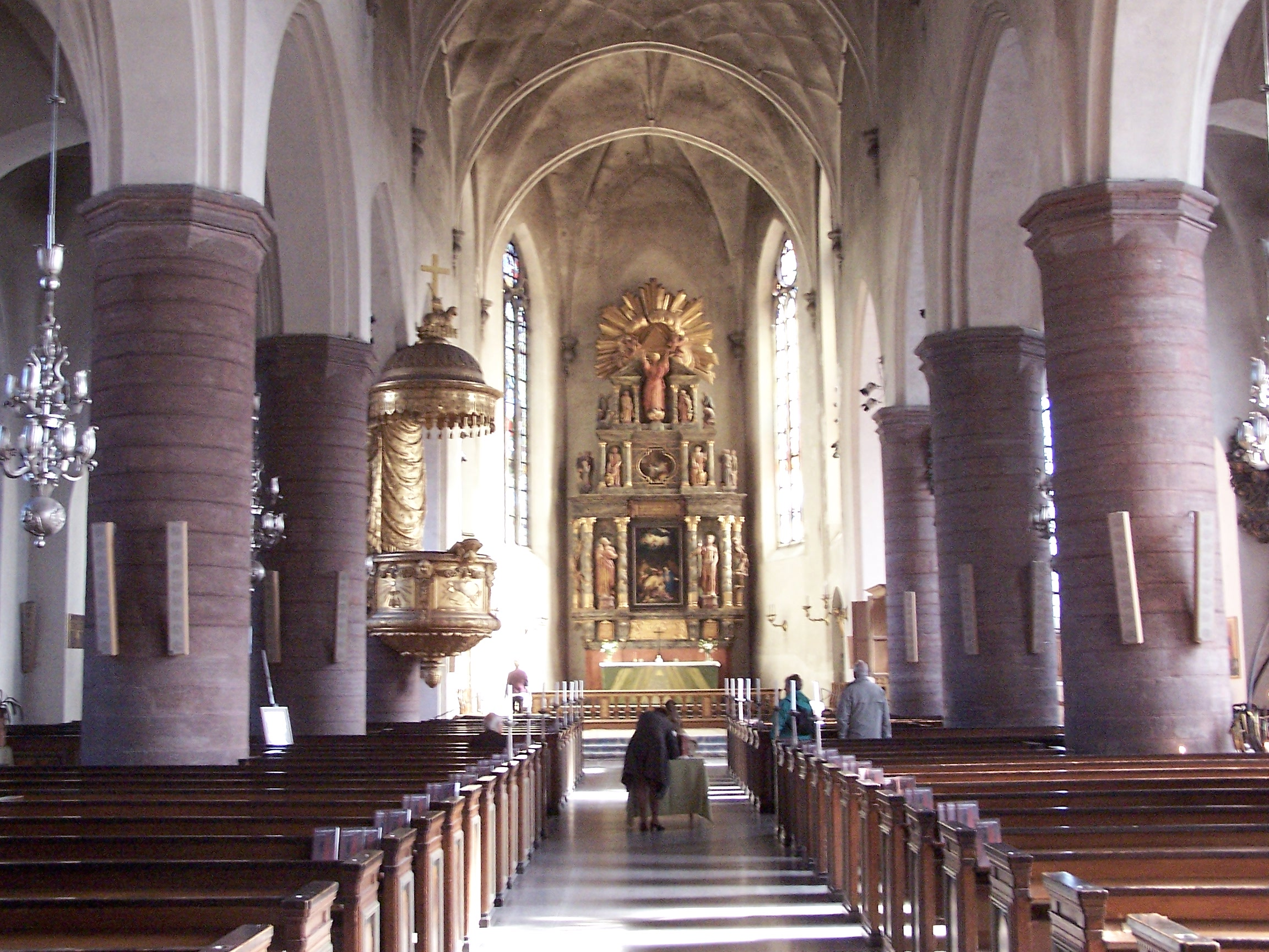 Jakob church, Stockholm, Sweden - Interior